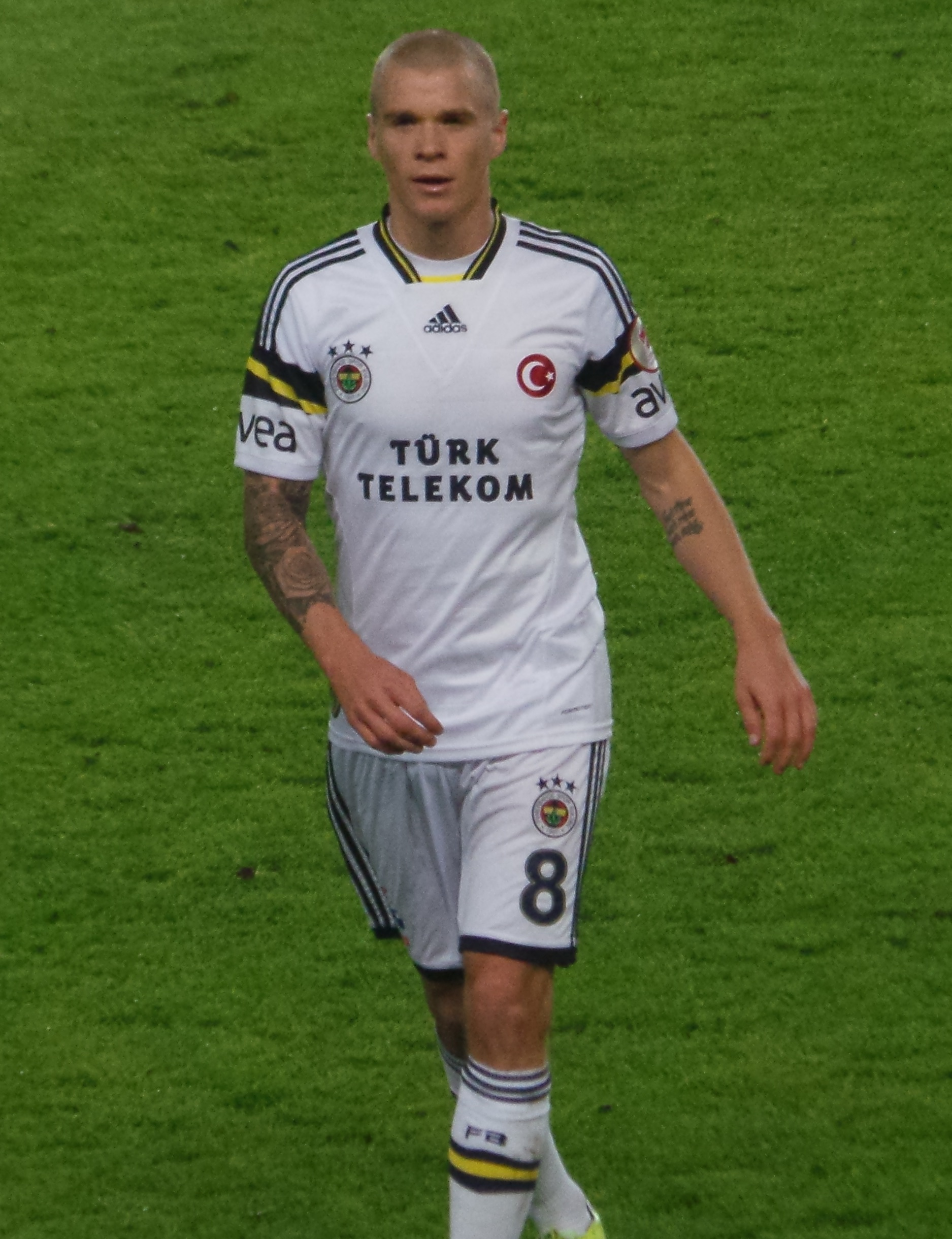 Samuel Holmén